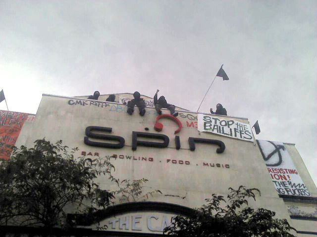 The Gremlins protesting on the roof of the squatted Spin Bowling, Cardiff